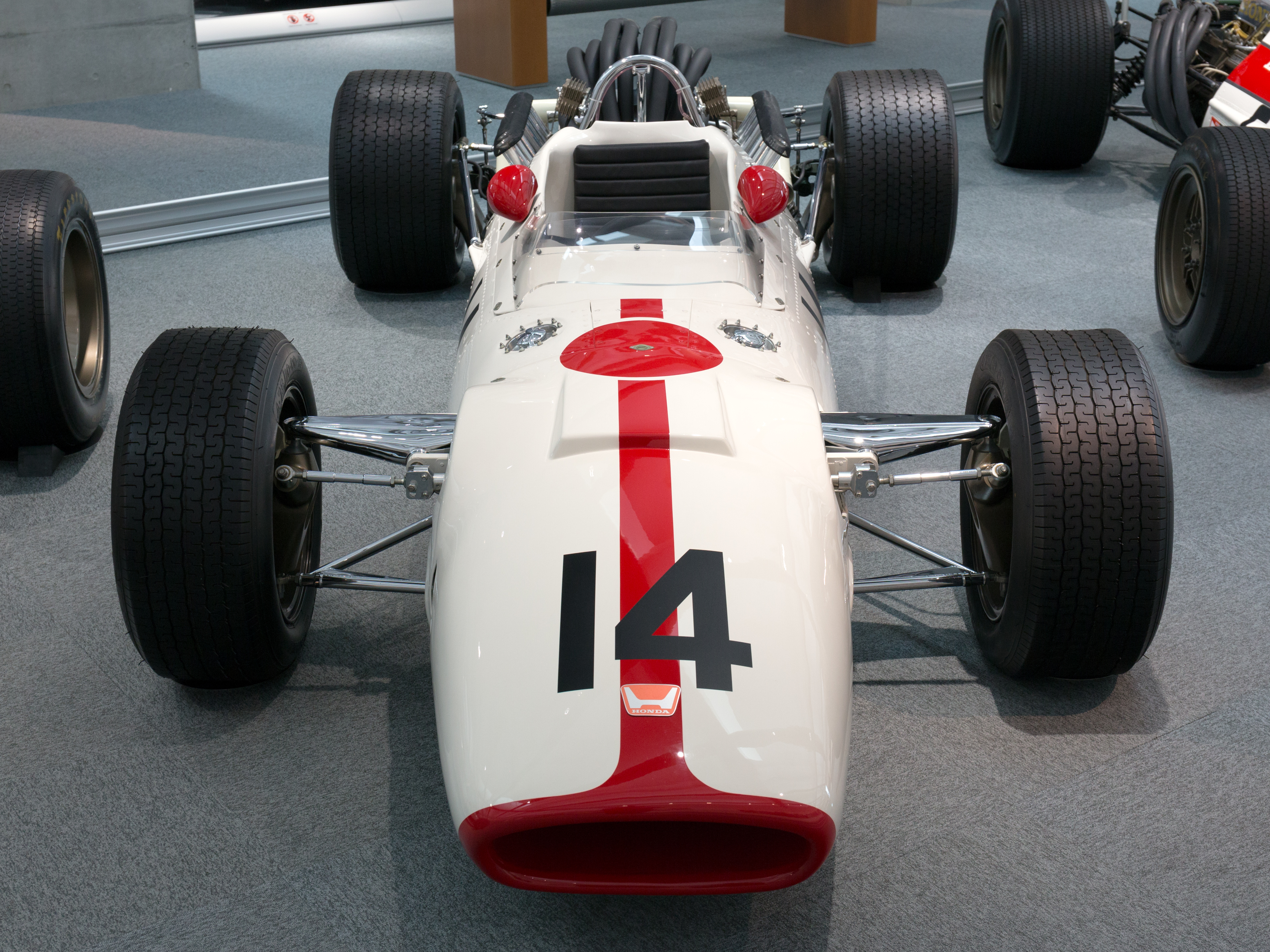 1967 Honda RA300 of John Surtees